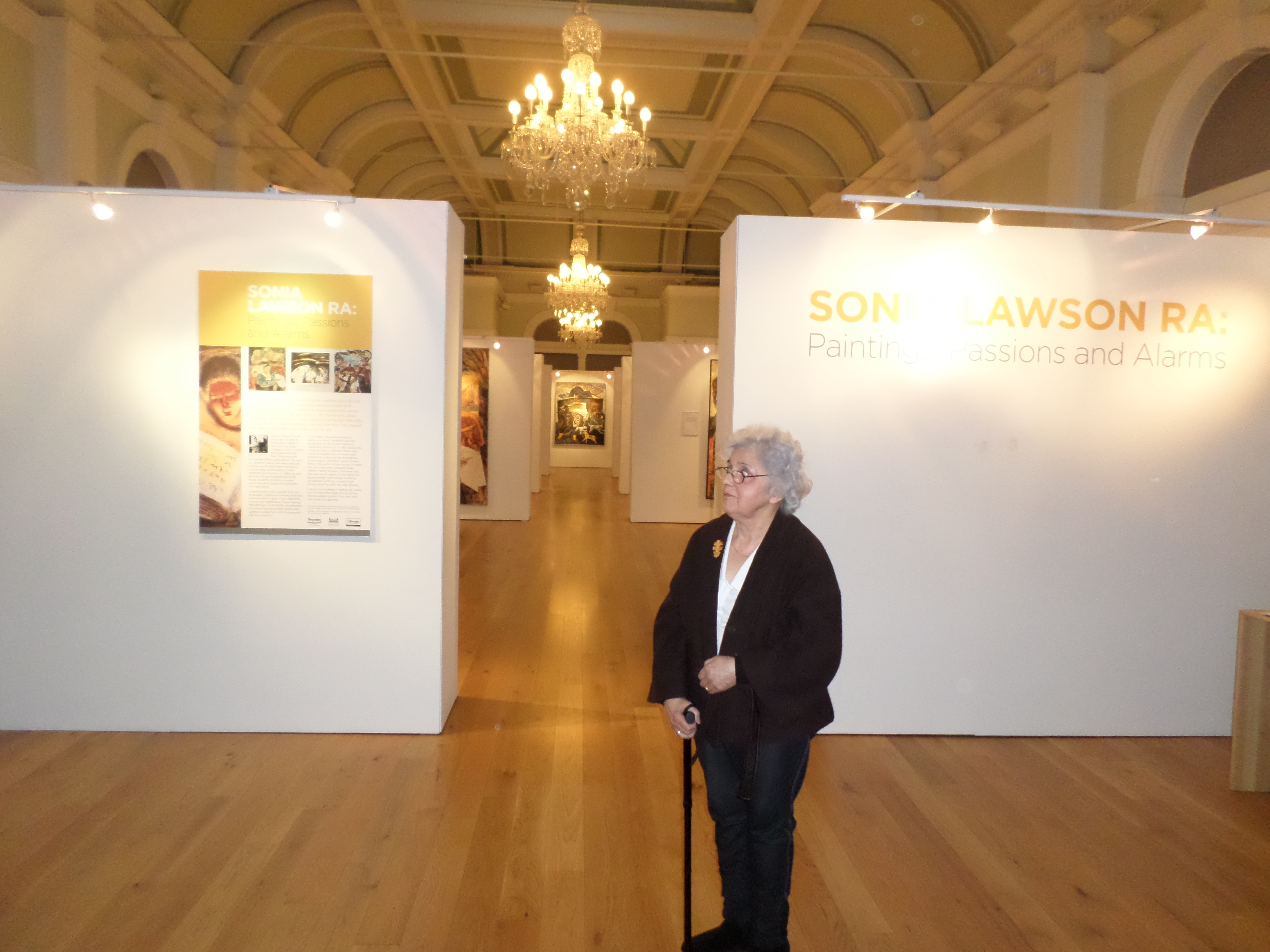 Sonia Lawson RA. At the preview of her solo exhibition held at the Mercer Gallery Harrogate. November 2015 - February 2016